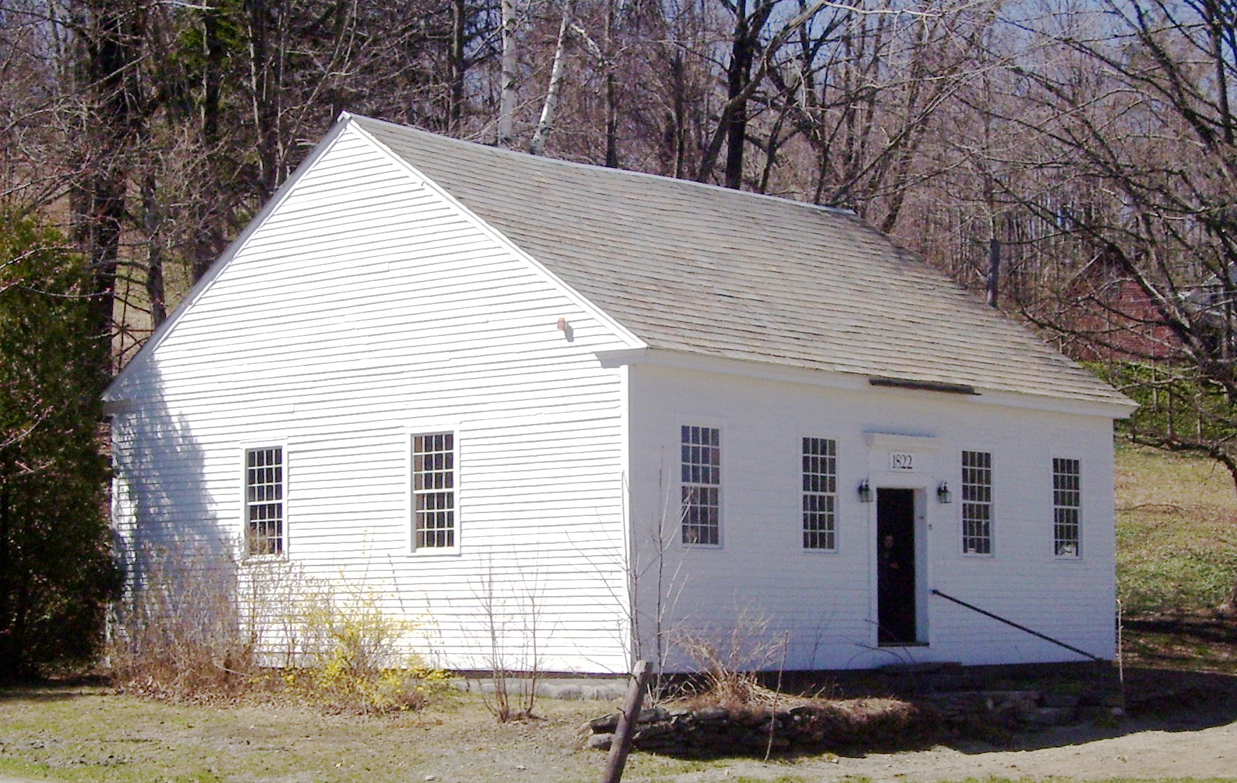 The Town House on South Road in Marlboro, Vermont, was built in 1822 and is used for Town Meetings. The building was originally built from timbers and boards salvaged from the town's first church when it was replaced with a newer structure, and stood near the church at the top of Town Hill. Both buildings were moved to South Road between 1836 and 1844, although the Town House was on the east side of the road until 1966, when a new, oversized snow plow hit it at that location, and it was moved to its current site. Despite its name, the nearby Meeting House Congregational Church was not used for Town Meetings. (Source: Forrest Holzapfel, Town Historian, April 2012 and Marlboro Historical Society website)